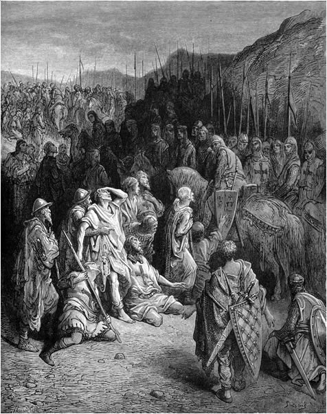 The few surviving soldiers of Peter’s army apprise Godfrey and his Crusaders about the massacre by the Saracens.